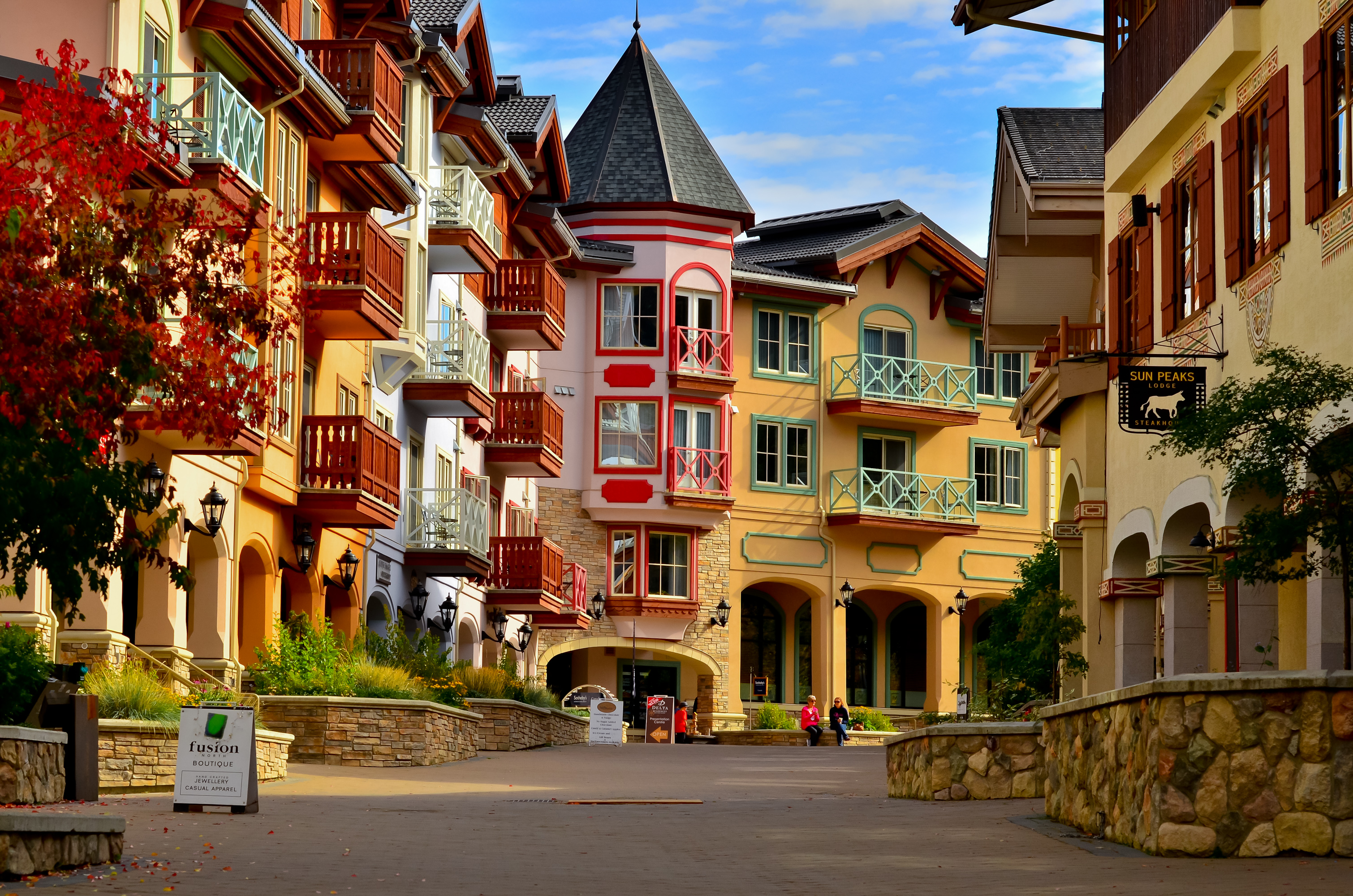 Sun Picks shopping downtown on Oktoberfest